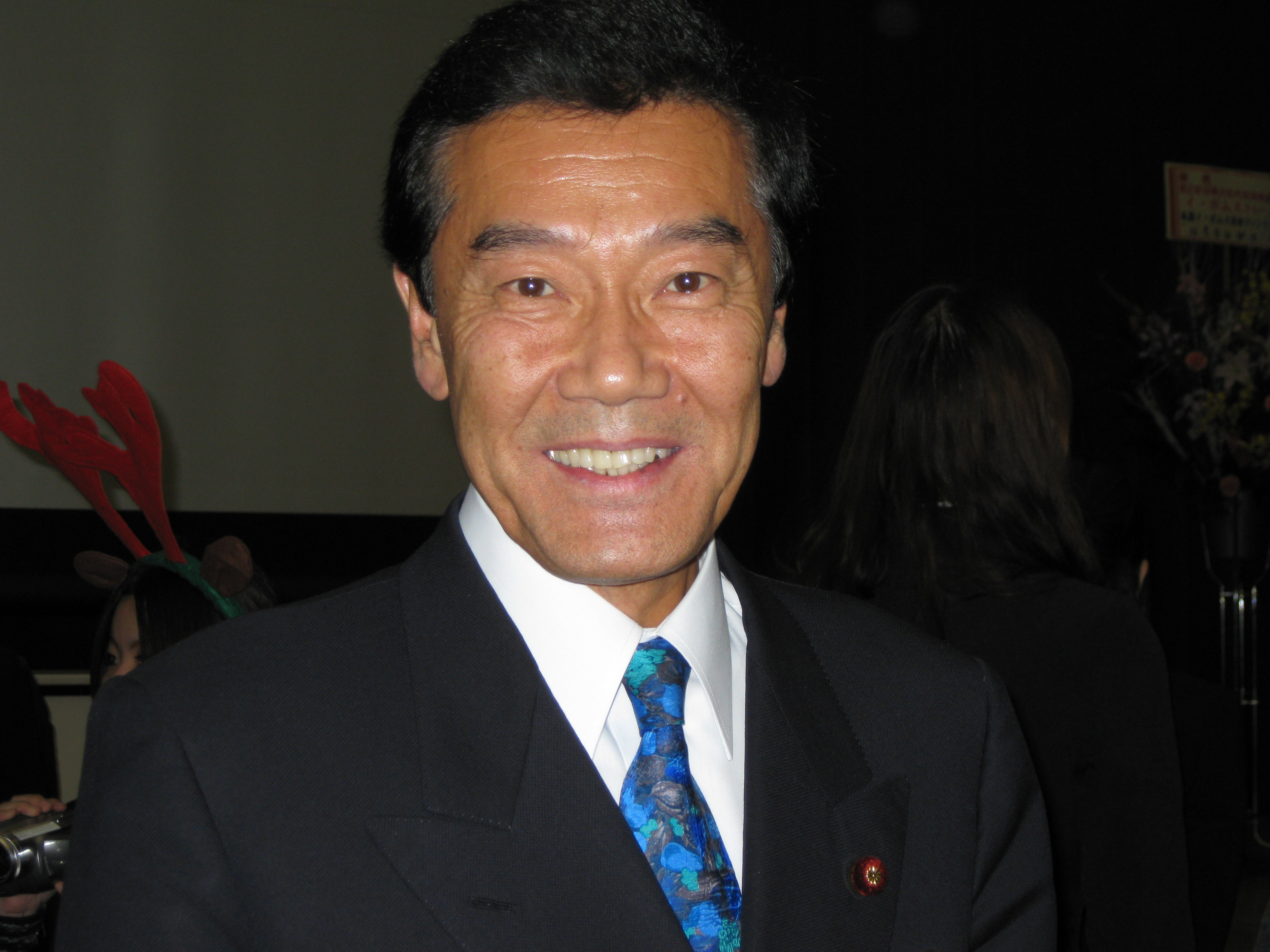 Katsuhiko Yokomitsu, member of the House of Representatives, at the reception of Japan-Korea Next Generation Film Festival at Beppu, Oita (December 12, 2009)